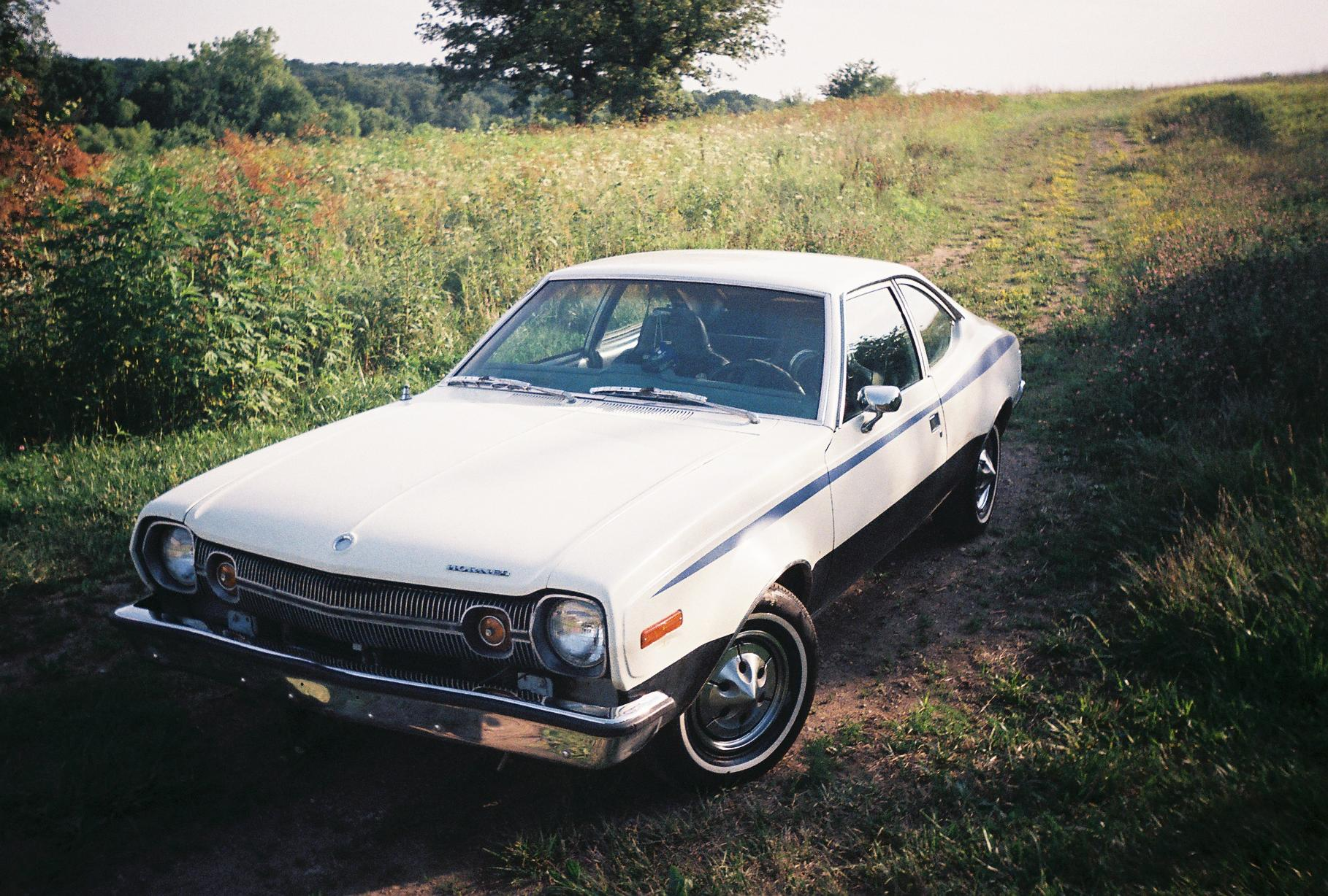 This picture was taken by my friend Stephen Tice. --Hiaburi 17:07, 26 September 2007 (UTC) A small update, earlier last year, 2009, the car was totaled and is now laid to rest in a junk yard. Passenger side of the unibody crushed completely in. --71.79.134.3 (talk) 11:15, 31 January 2010 (UTC)